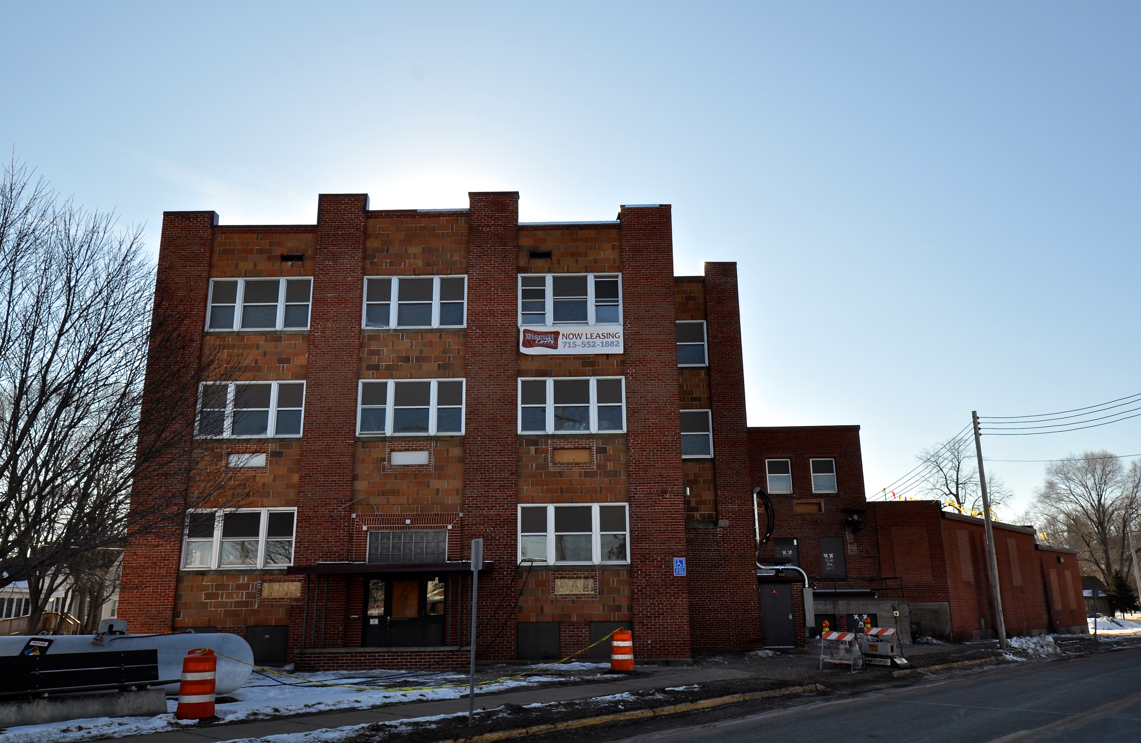 Eau Claire Vocation School.